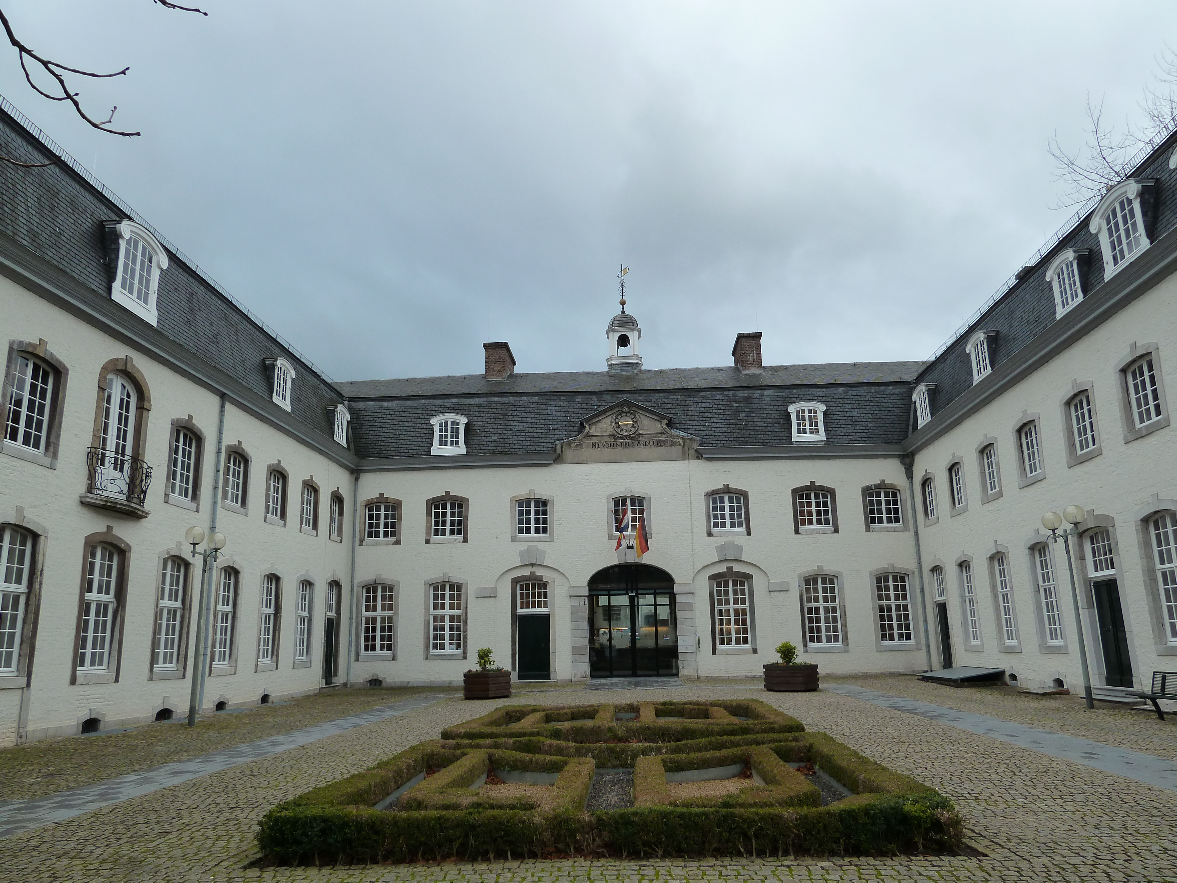 Von Clermontplein 15, Vaals, Limburg, the Netherlands